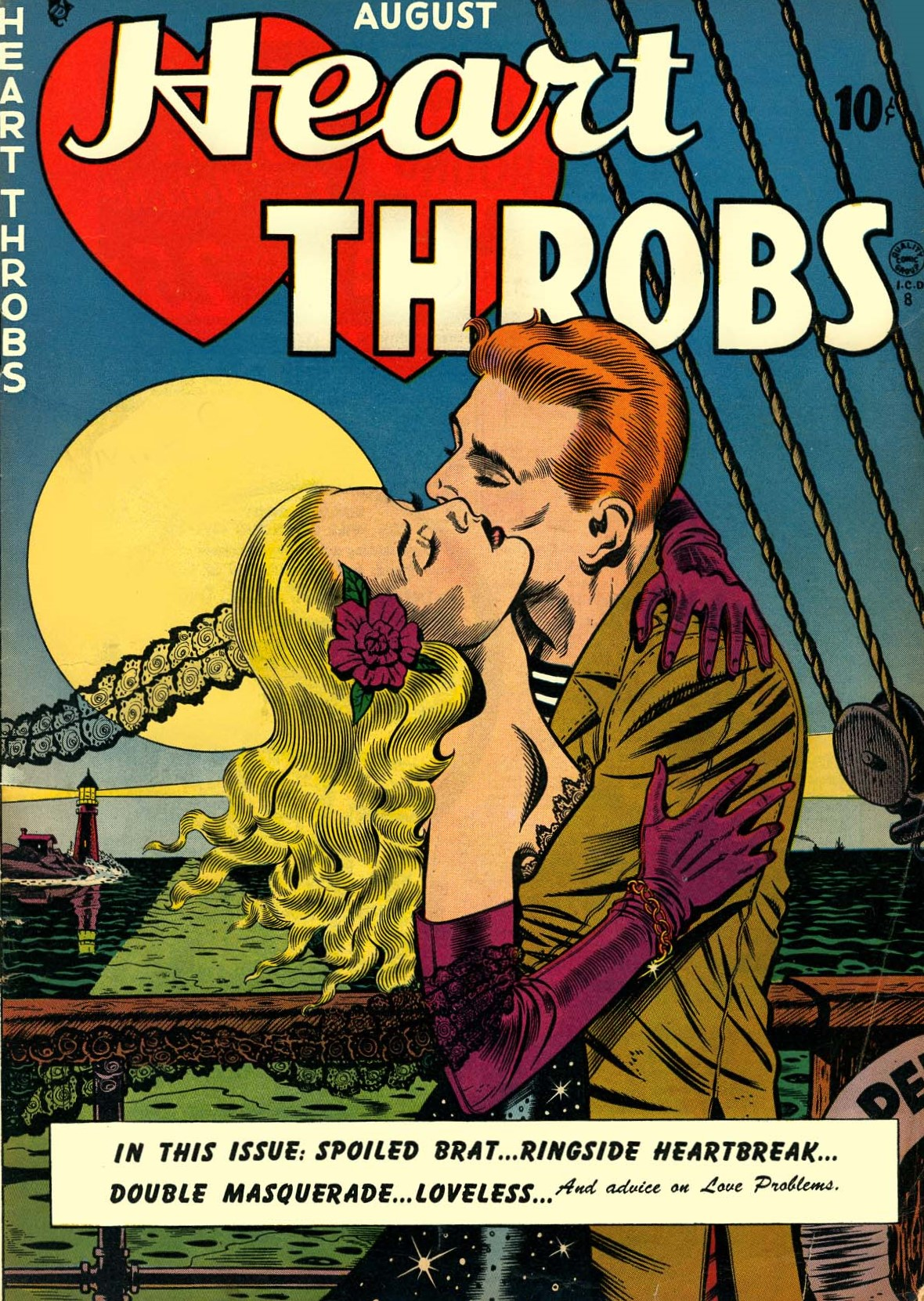 Cover of Heart Throbs, #1